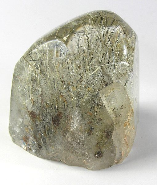 Quartz, Stibnite, Cervantite Locality: Trinity Mts, Lovelock, Antelope District, Pershing County, Nevada, USA (Locality at ) Size: 4.4 x 4.4 x 4.1 cm. This is a quite a rare U.S. quartz specimen, a polished crystal of quartz shot through with acicular stibnite and cervantite crystals, from the Trinity Mountains in Nevada. Here is what is on the back side of the old label: "Bought on Feb. 17, 1950. An exceptional example of a rare, hard-to-get item, the exact locality of which no one seems to know and which has been kept a deep secret)." Love this description! Later it appears the question was answered (on the other side of the label - which shows the specimen to have first been in the collection of Mitch Gunnell, and then passed to a collector named Robert Roote, author of the quote above). Anyway, a fascinating specimen that even most quartz collectors probably do not have in their collections! Richard Hauck Quartz Collection specimen.